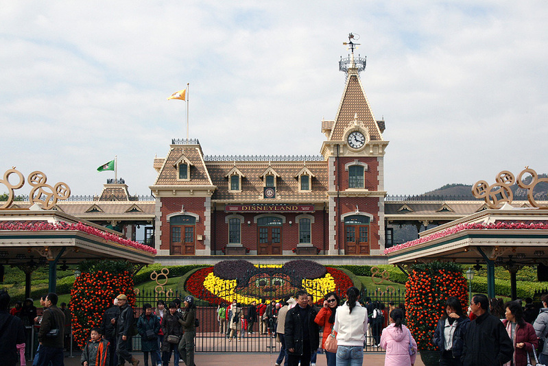 A "HKDL Entrance" image.